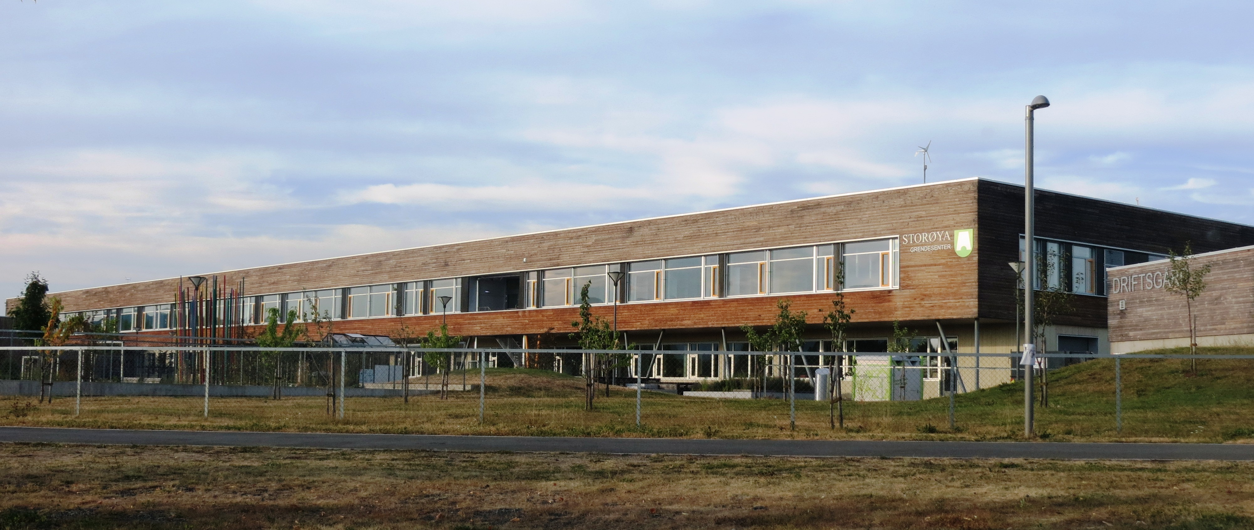 The New Storøya Grendehus (Storøya Community House) and primary School at Fornebu, Bærum (Norway)